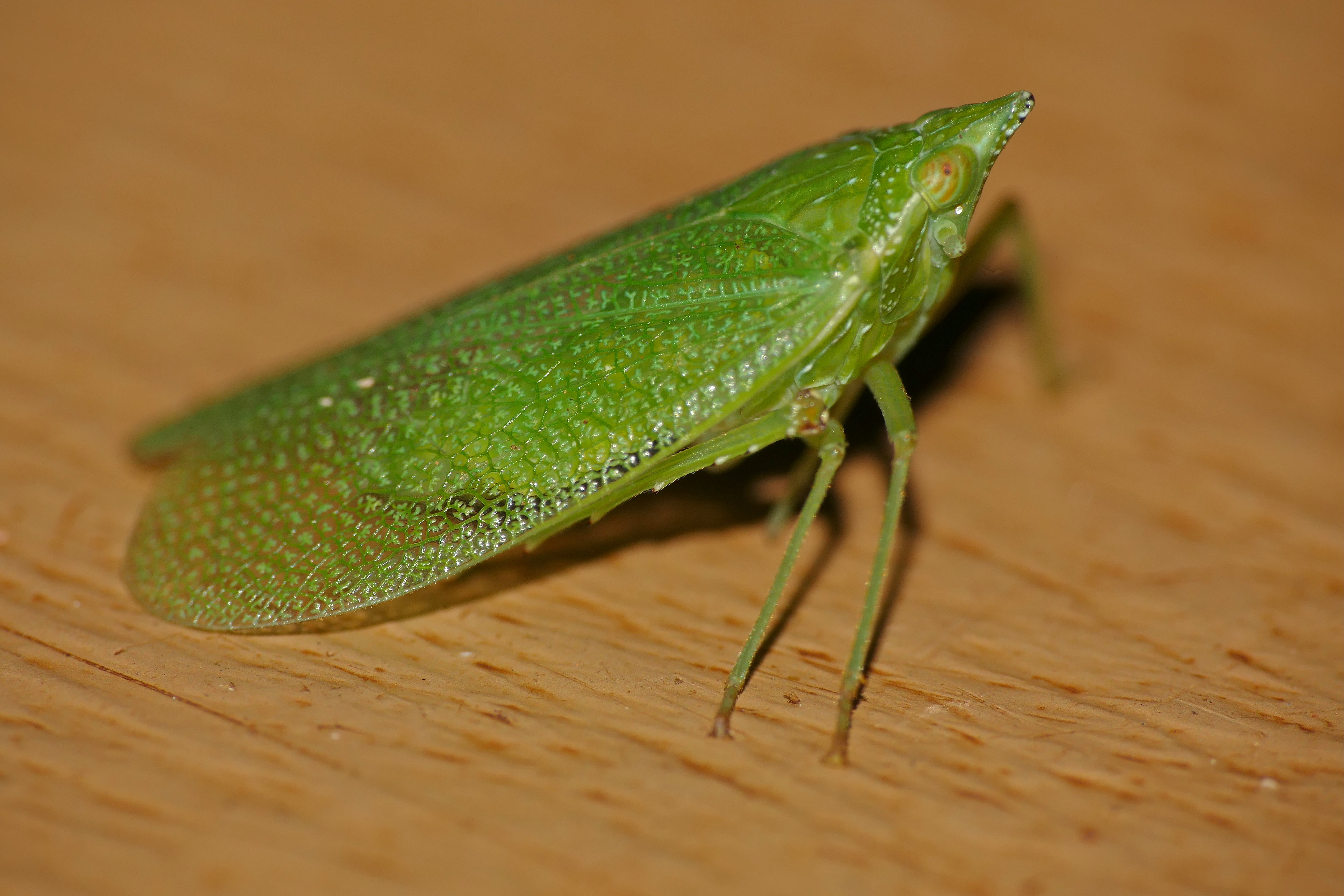 Crocodile Bridge Camp, Kruger NP, SOUTH AFRICA